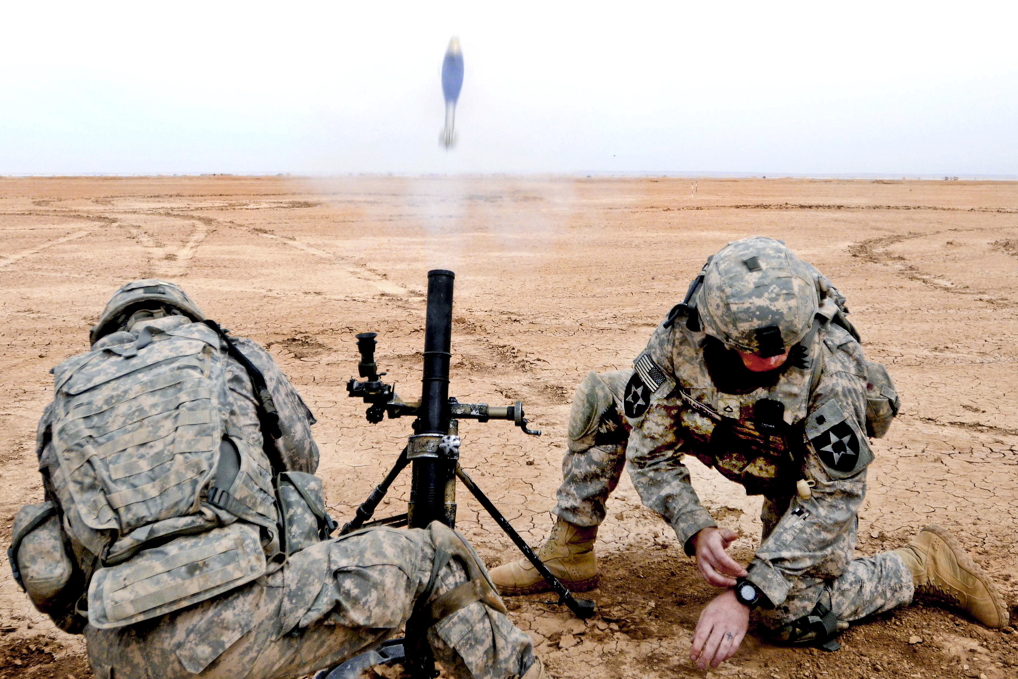 M224 mortar firing